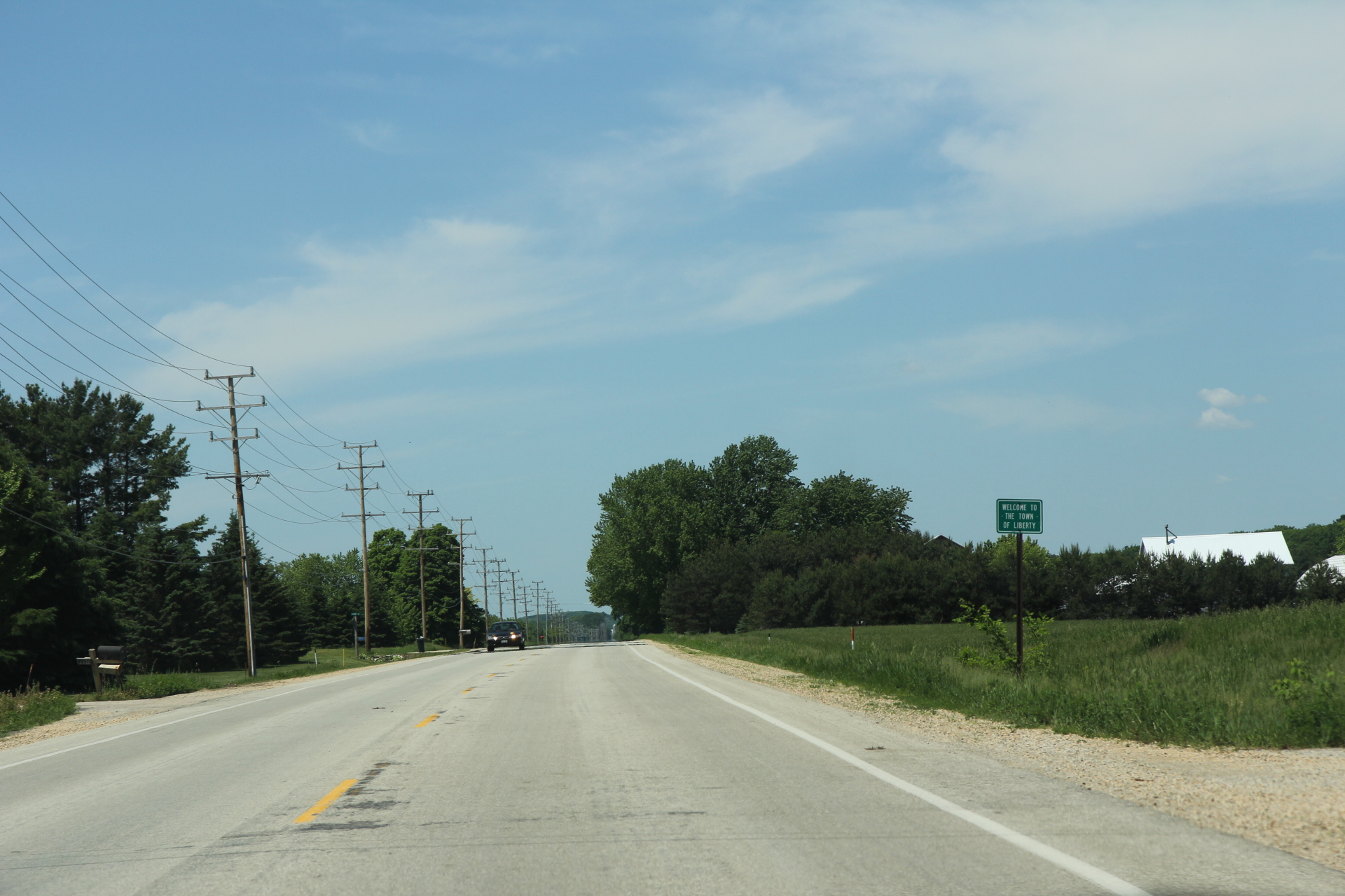 Sign for the Town of Liberty in Outagamie COunty, Wisconsin on Wisconsin Highway 54.